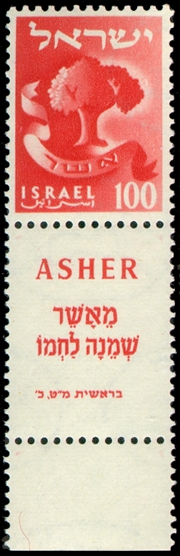 Tribes stamp - 100 mil - Asher. Second definitive series. Inscription on tab: "Out of Asher his bread shal be fat..." Genesis IL, 20.